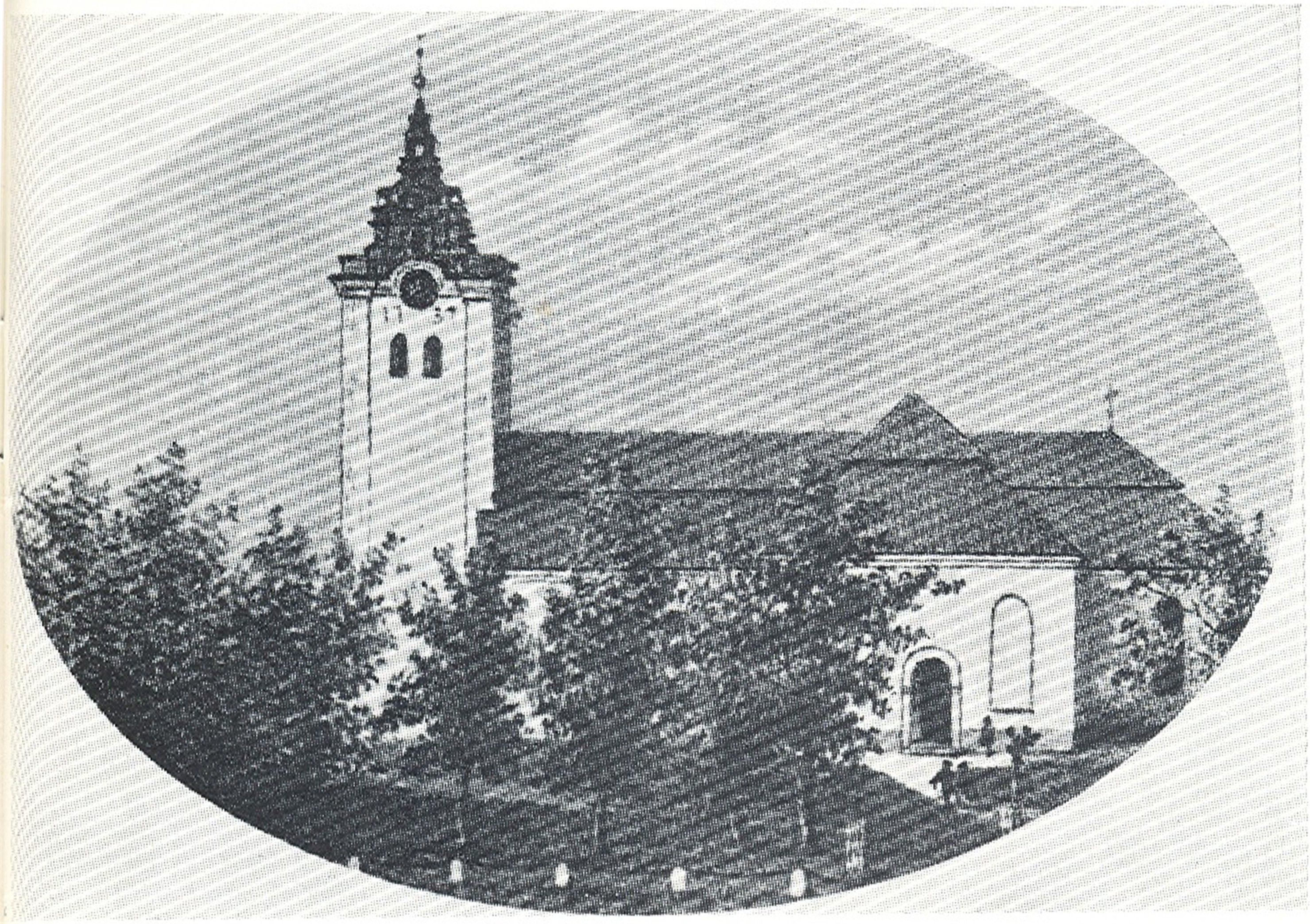 The cathedral of Karlstad before the fire in 1865, when the tower's and roof's wooden parts were damaged. Karlstads domkyrka före branden 1865 då tornets och takets delar av trä förstördes.